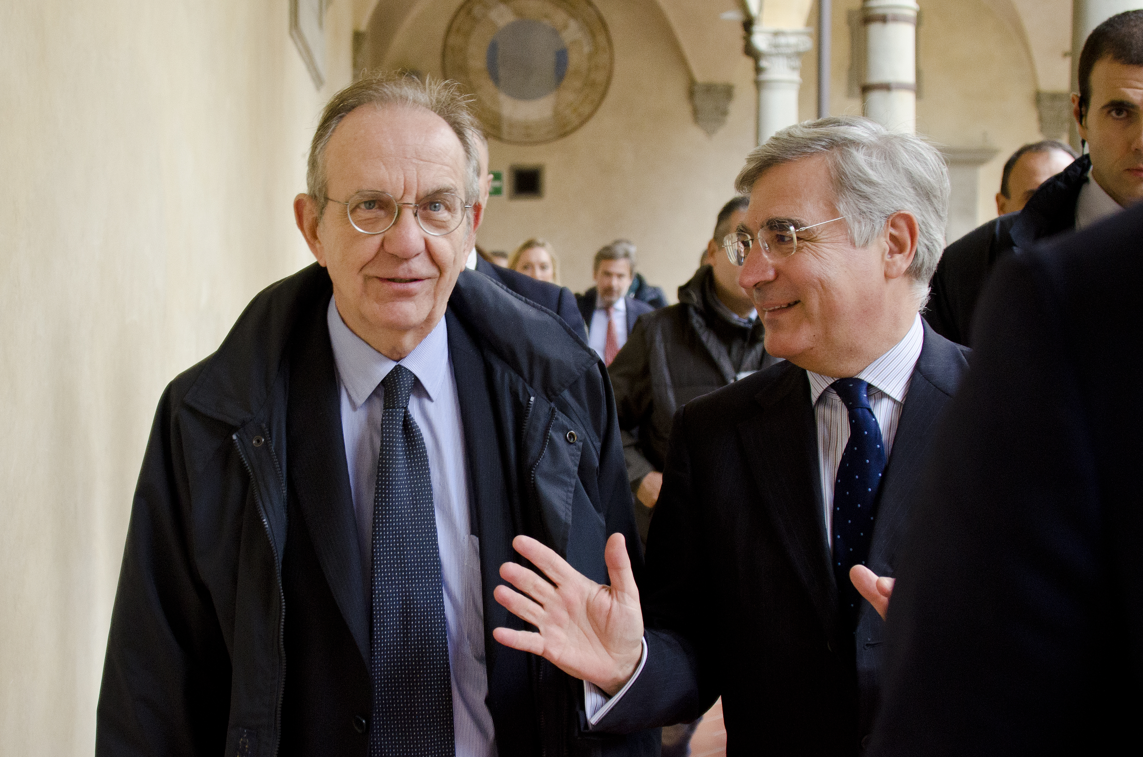 Visit of Italian Minister of Finance, Pier Paolo Padoan and EC Vice President, Kristalina Georgieva: 1 October 2015